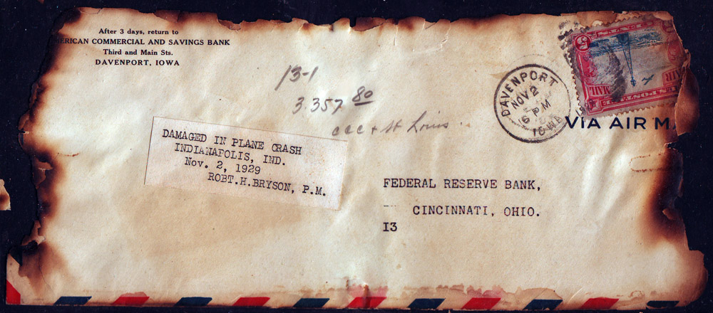 Partially burned "crash cover" carried on the regular evening Southbound Air Mail flight of USPOD CAM #24 which departed Maywood Field, Chicago, IL, on schedule at 9:00PM, November 2, 1929, for Cincinnati, OH, via Indianapolis, IN. Pilot Charles Vermilyea miscalculated his altitude while landing at Mars Hill Airport in Indianapolis at 10:45PM and crashed resulting in a fire with loss of both pilot and airplane. About 85% of the mail (much of which was damaged) was salvaged and forwarded to its addressees with a notice applied to each cover reading "DAMAGED IN PLANE CRASH INDIANAPOLIS, IND. Nov. 2, 1929 ROBT. H. BRYSON, P.M."